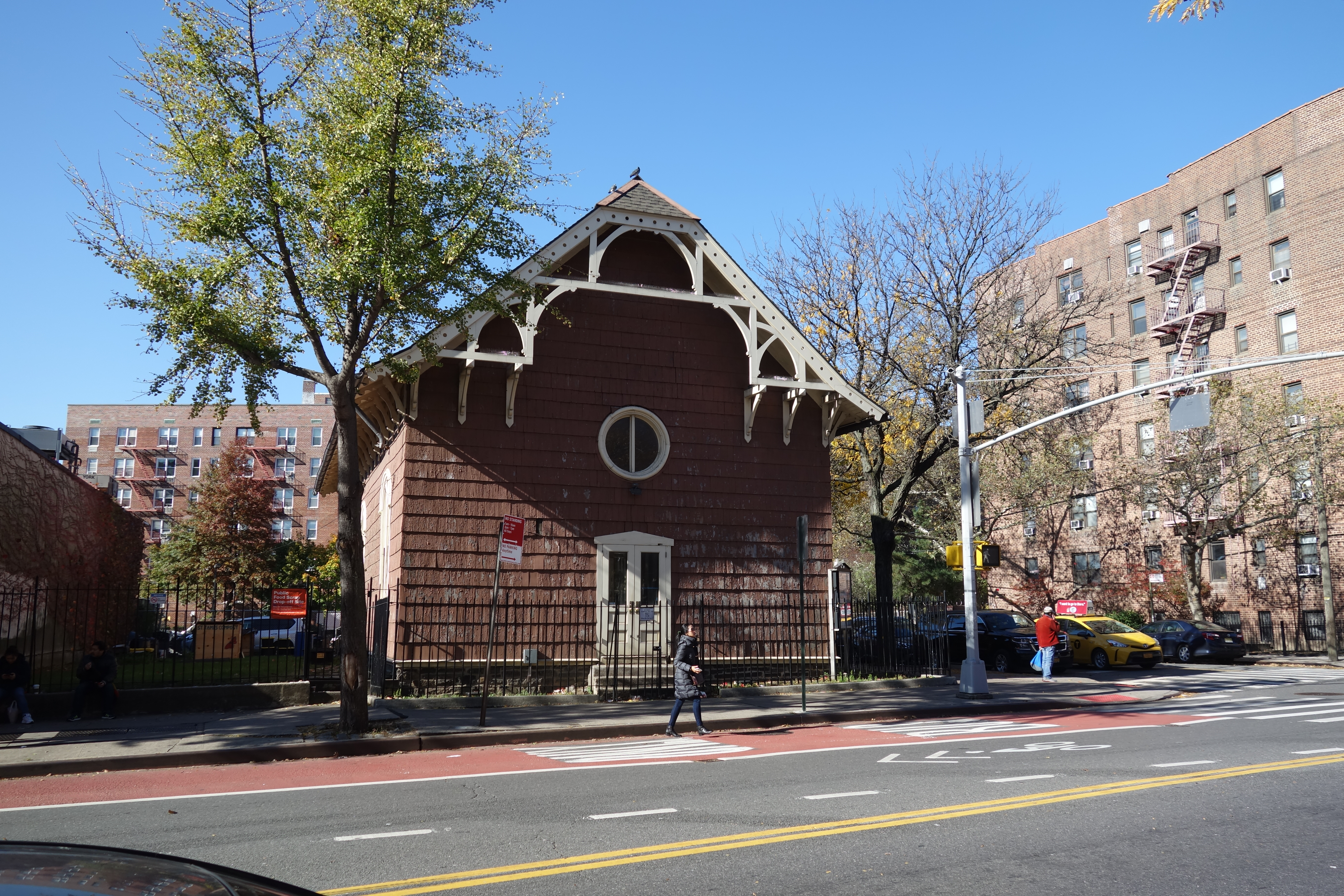 The original building of the St. James Protestant Episcopal Church, at the southwest corner of Broadway and 51st Avenue in Elmhurst, Queens. The church has since moved to new buildings on Corona Avenue, while this 1700s structure functions as a parish house.